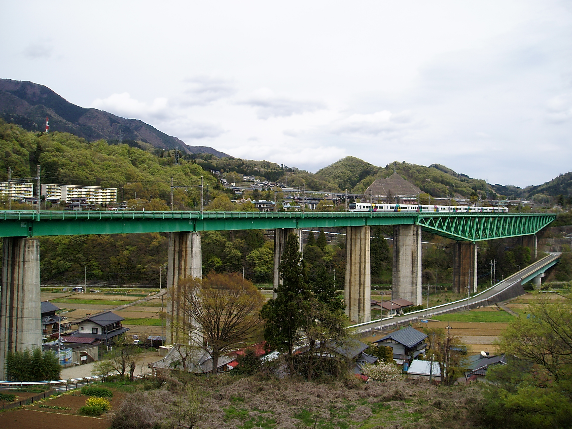 Chuo main line New-katsuragawa bridge